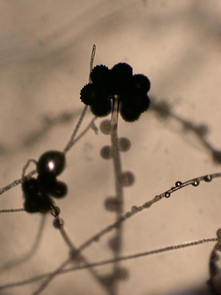 Choanephora cucurbitarum (Choanephoraceae Mucorales) incubated in wet chamber Japanese name;Kougaikekabi Date;2004,07,23;Susami town, Wakayama prefecture, Japan Author;Keisotyo